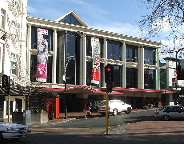 Dunedin Public Art Gallery, New Zealand. It is located on the site of the former D.I.C. department store in The Octagon, Dunedin.